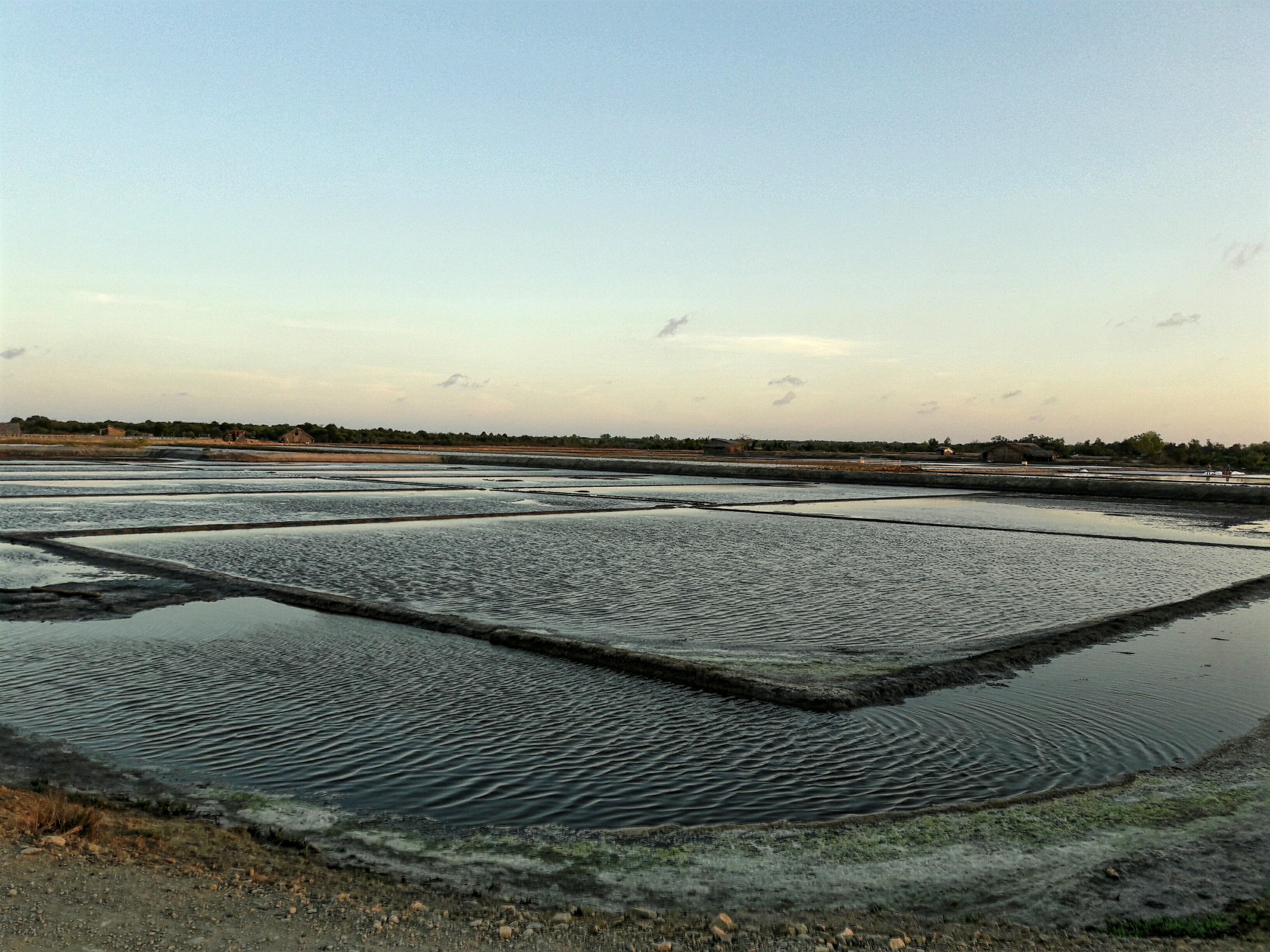 Salt pans in Ly Nhon